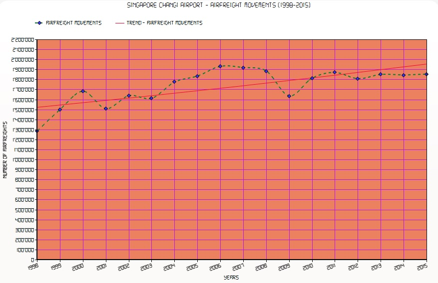 Singapore Changi Airport - Airfreight Movements (1998-2015)